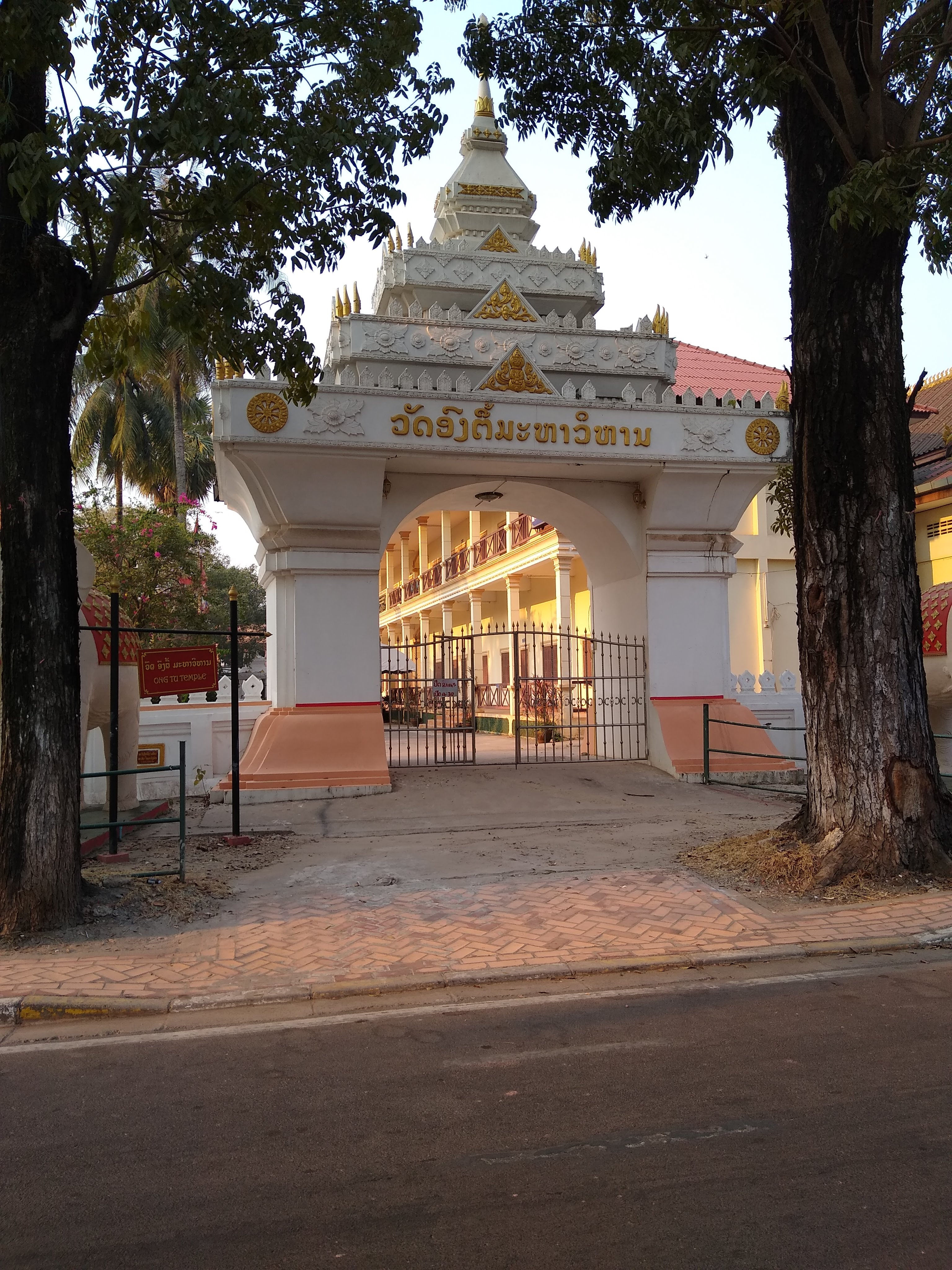 Ong Tu Temple, Vientiane